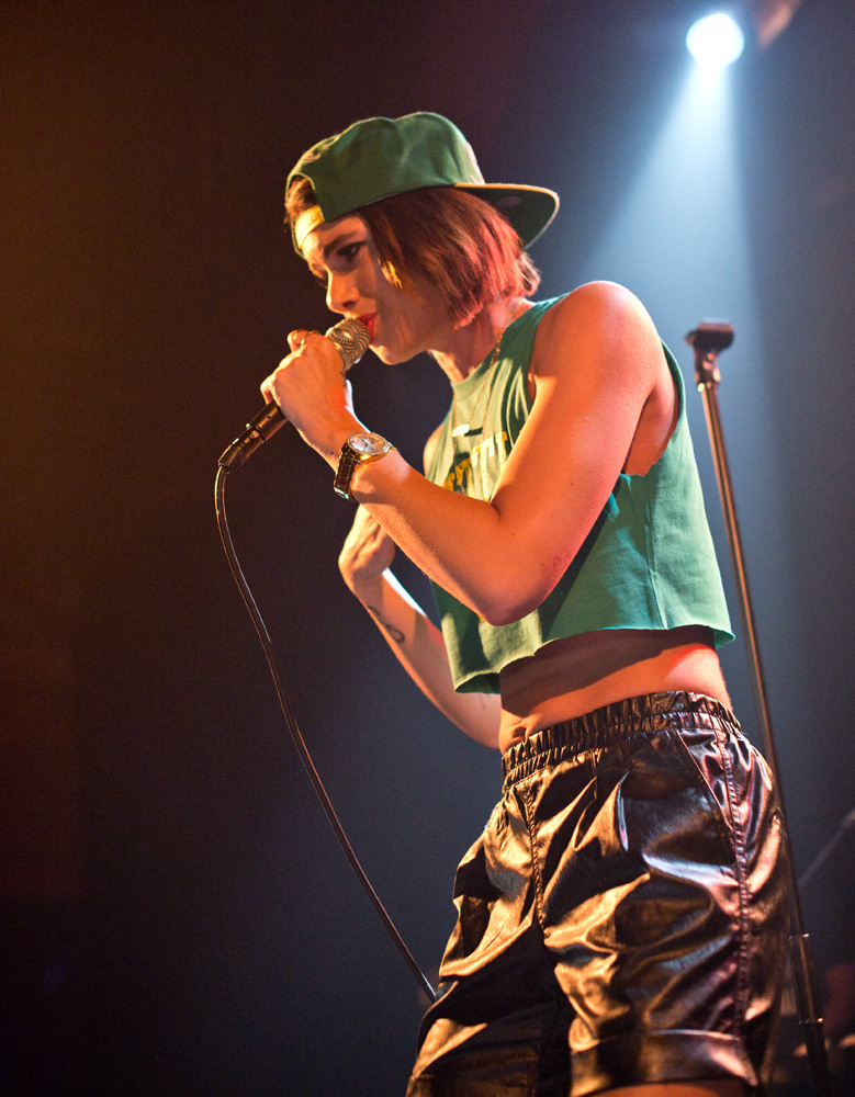 Leah LaBelle performing on October 9, 2013 at the Crocodile Café in Seattle, Washington